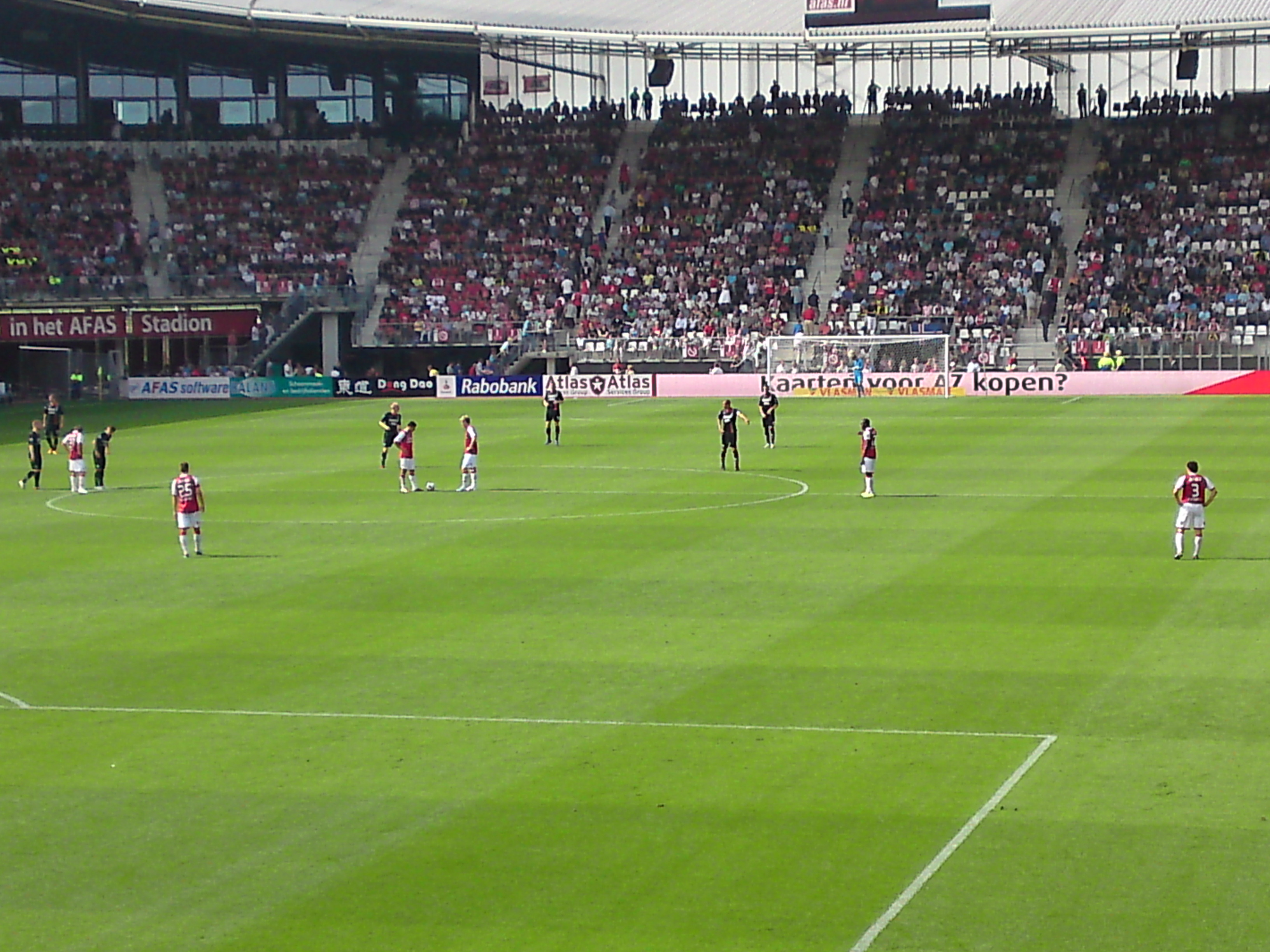 Kick-off of the match in the Dutch Eredivisie between AZ and NEC season 2011/12